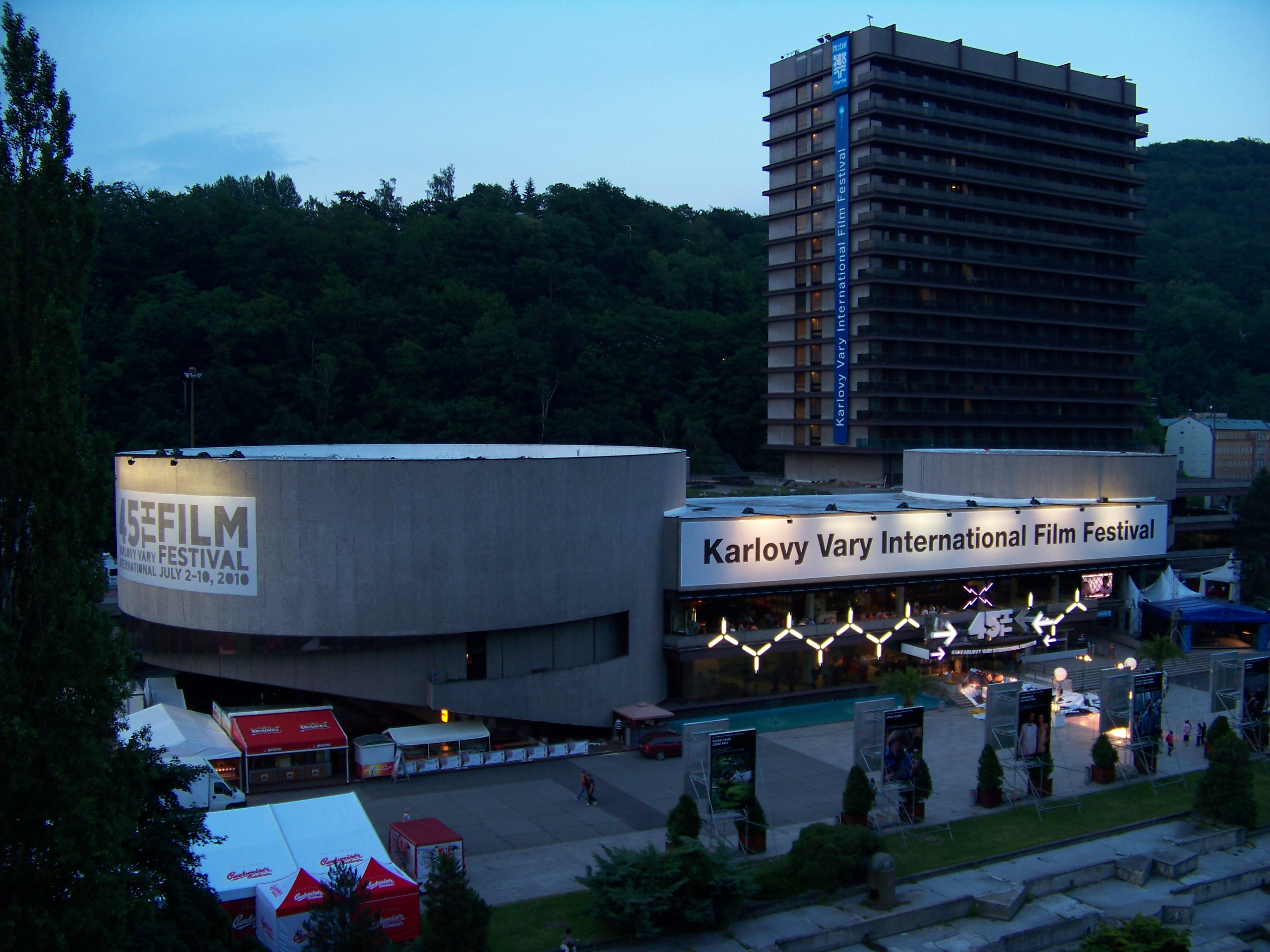 Karlovy Vary, the Czech Republic. Hotel Thermal before opening of the 45th International Film Festival. s - Google Maps - Google Earth